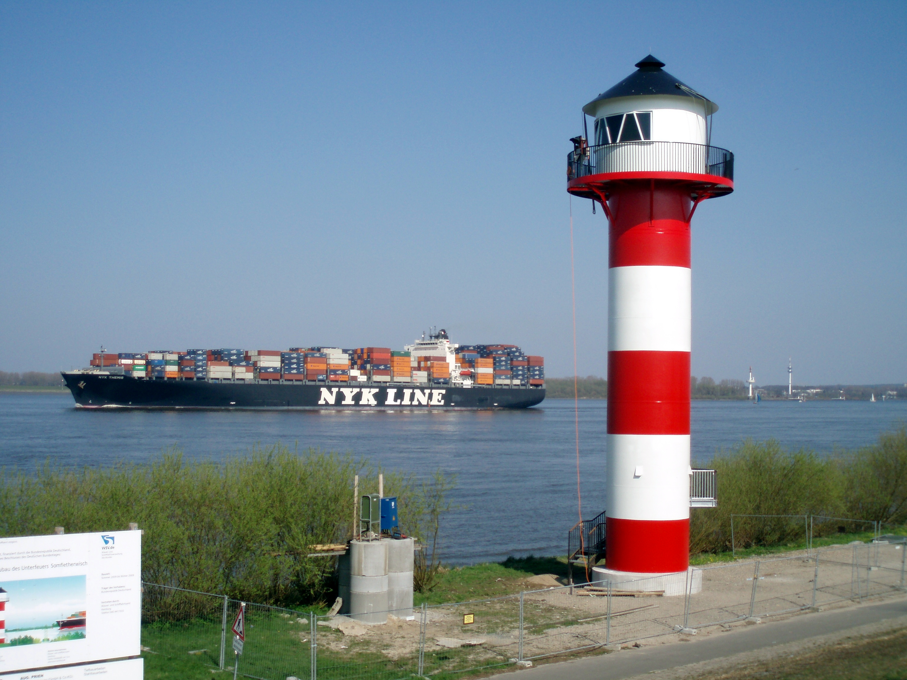 Somfletherwisch lighthouse (replaces Mielstack lighthouse). Constructed in 2009, became operational in 2010.